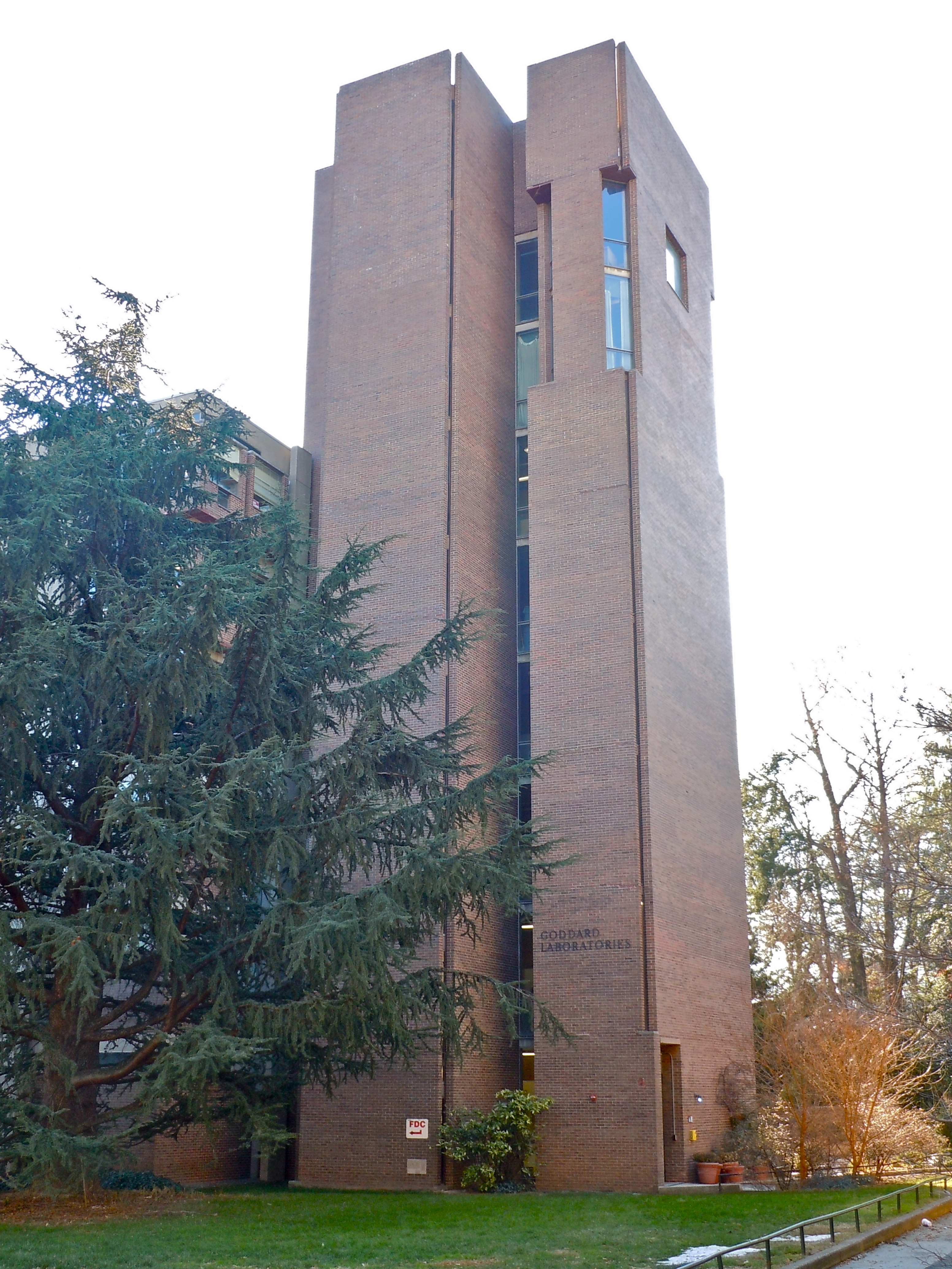 Goddard labs (attached to Richards labs) service tower on the west end of the complex.